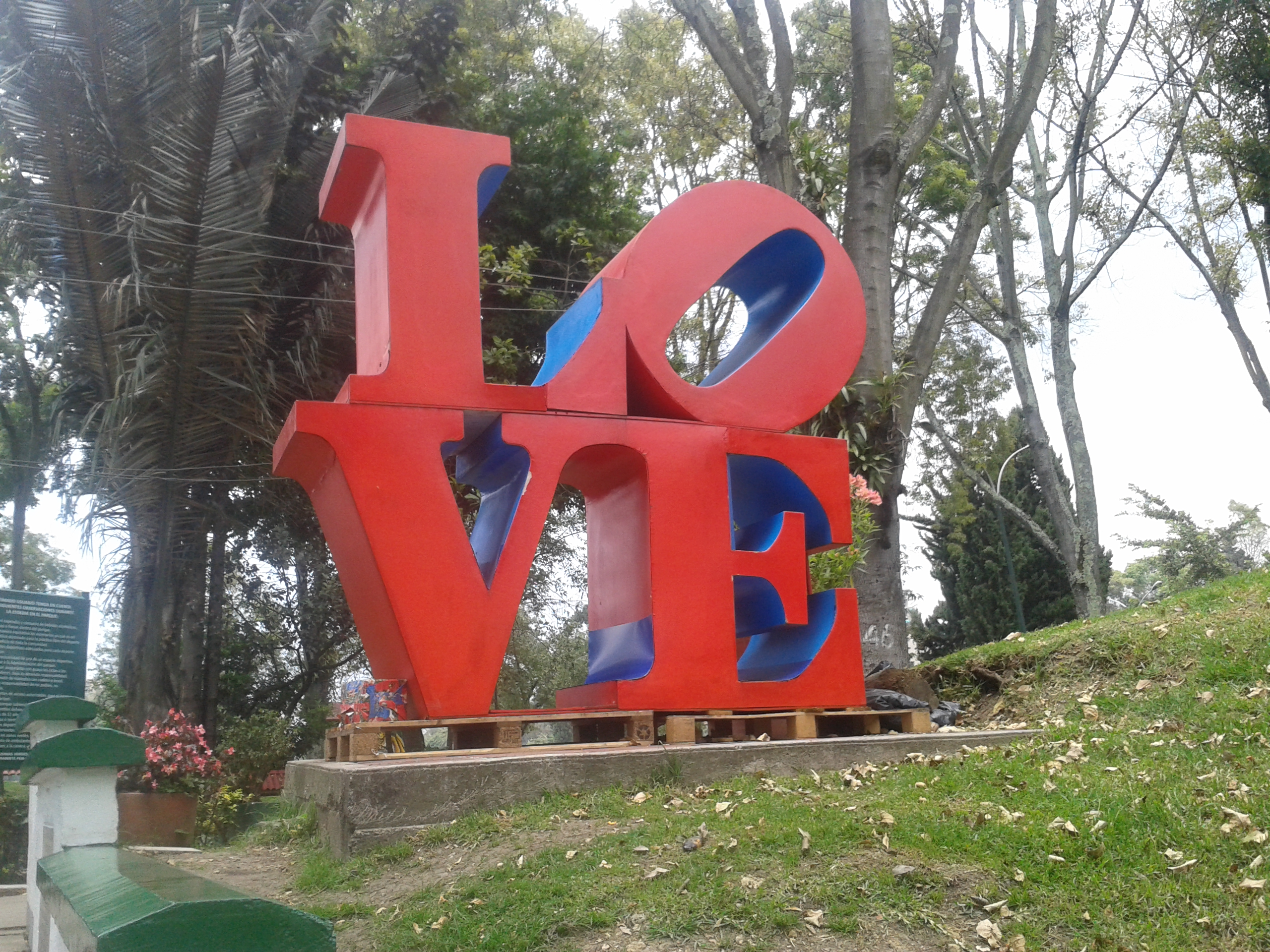 LOVE sculpture by Robert Indiana, on the entrance of Parque de los Novios, Bogotá, Colombia.